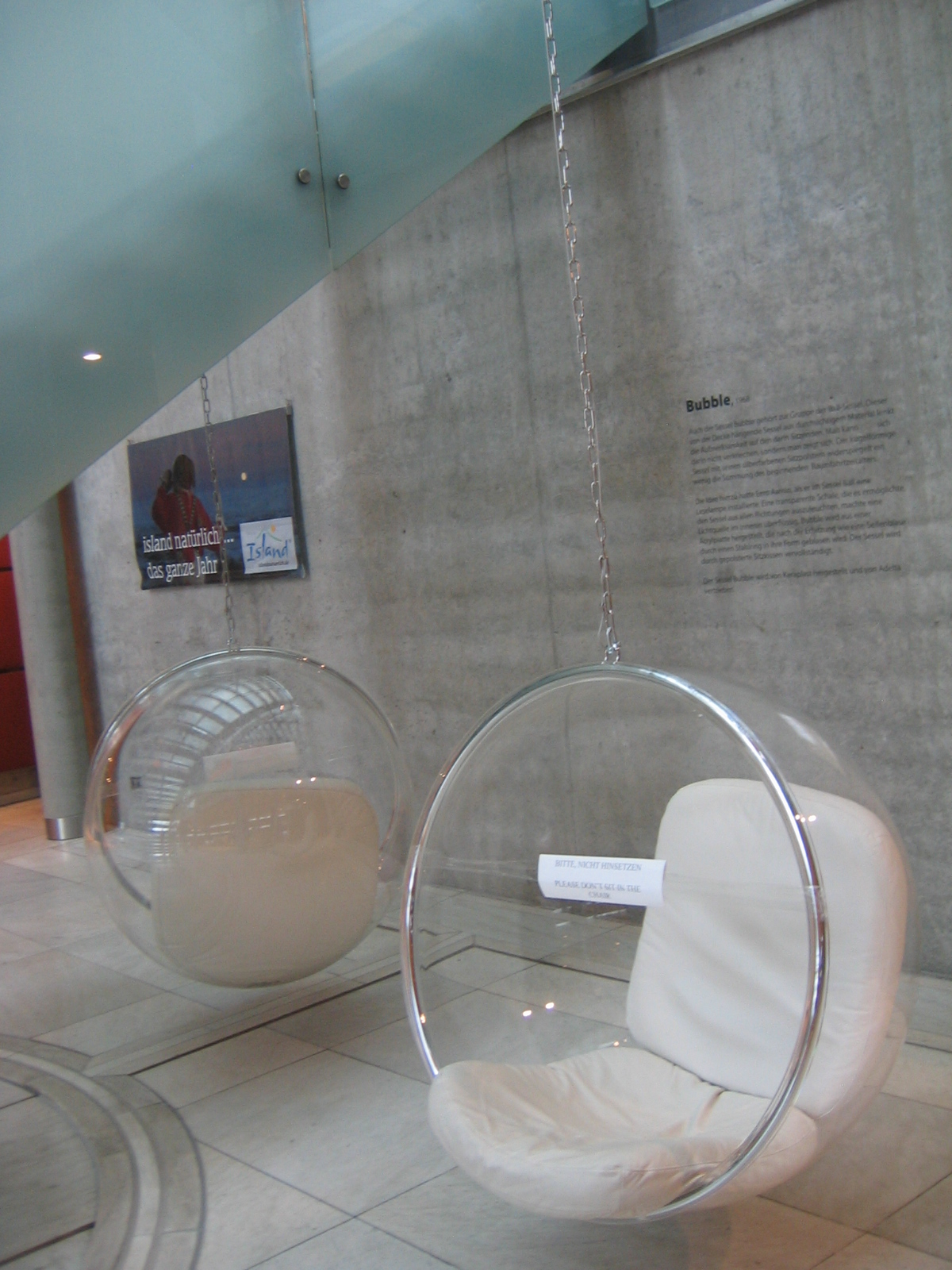 Bubble Chair